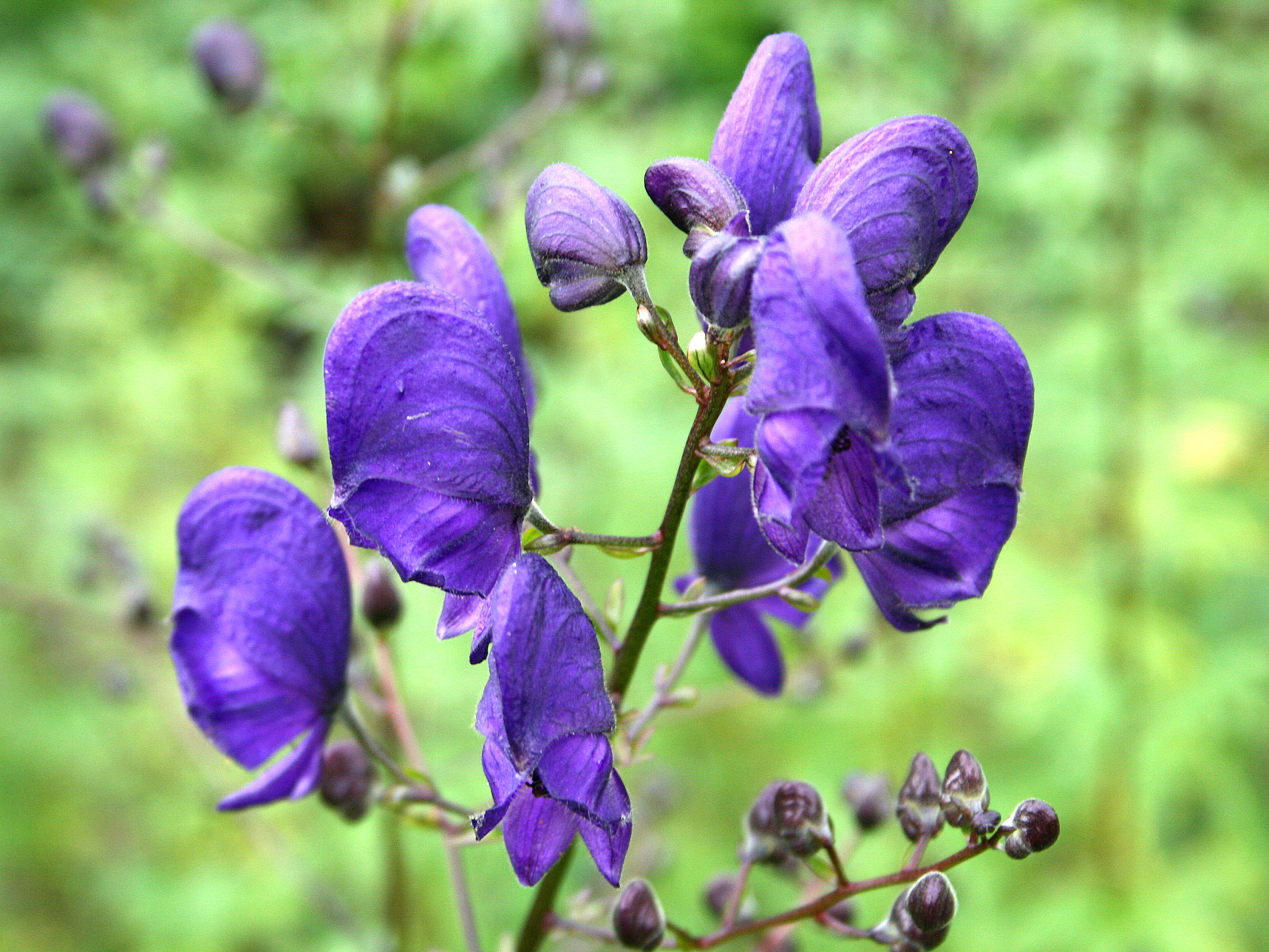 Monkshood, aconite, Wolf's Bane, Fuzi, Monk's Blood, or Monk's Hood Walon: Sabot, fleûr di malton, tchapê di jendârme ou èco tchaur di Vénus